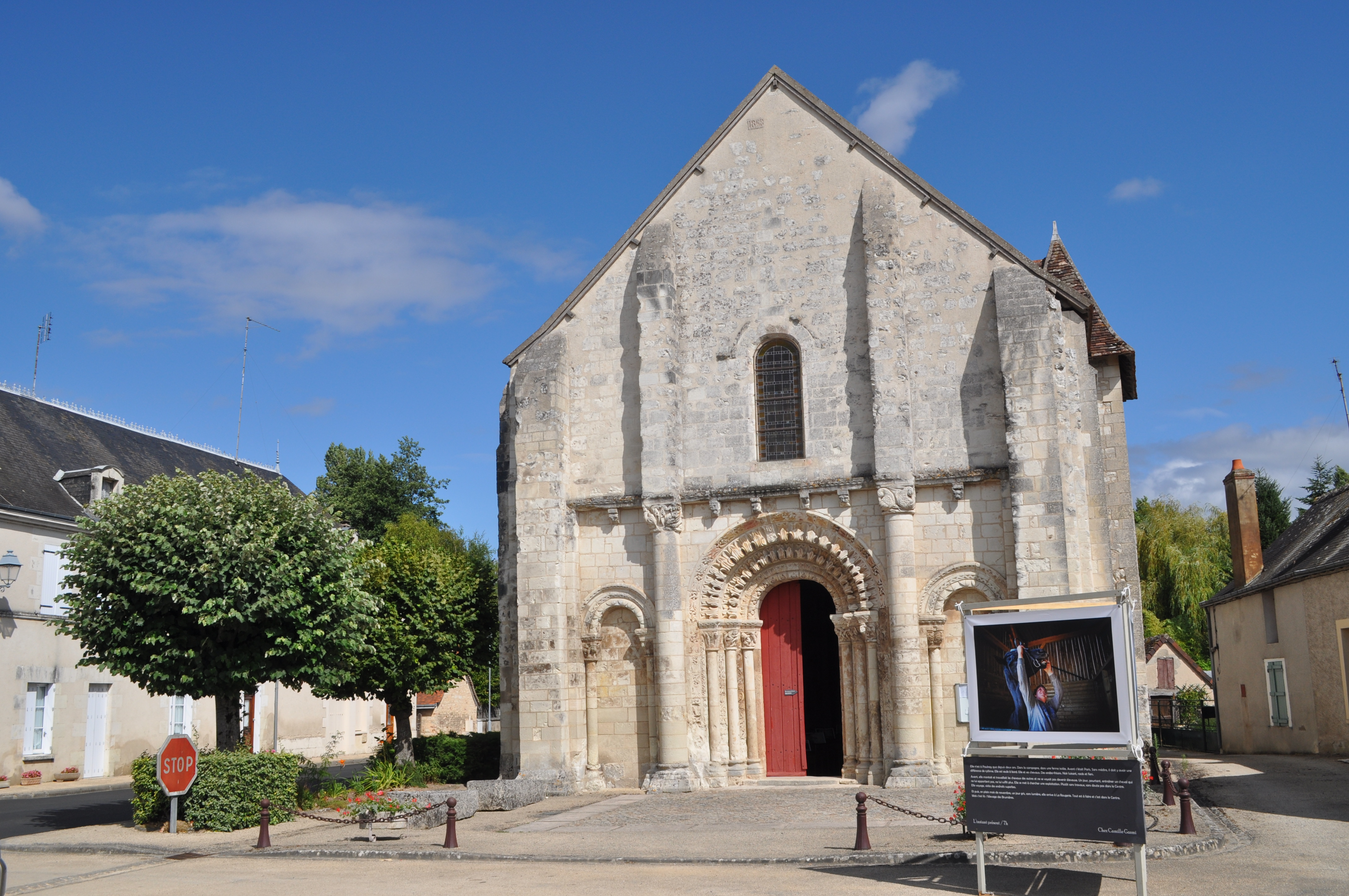 Paulnay's church